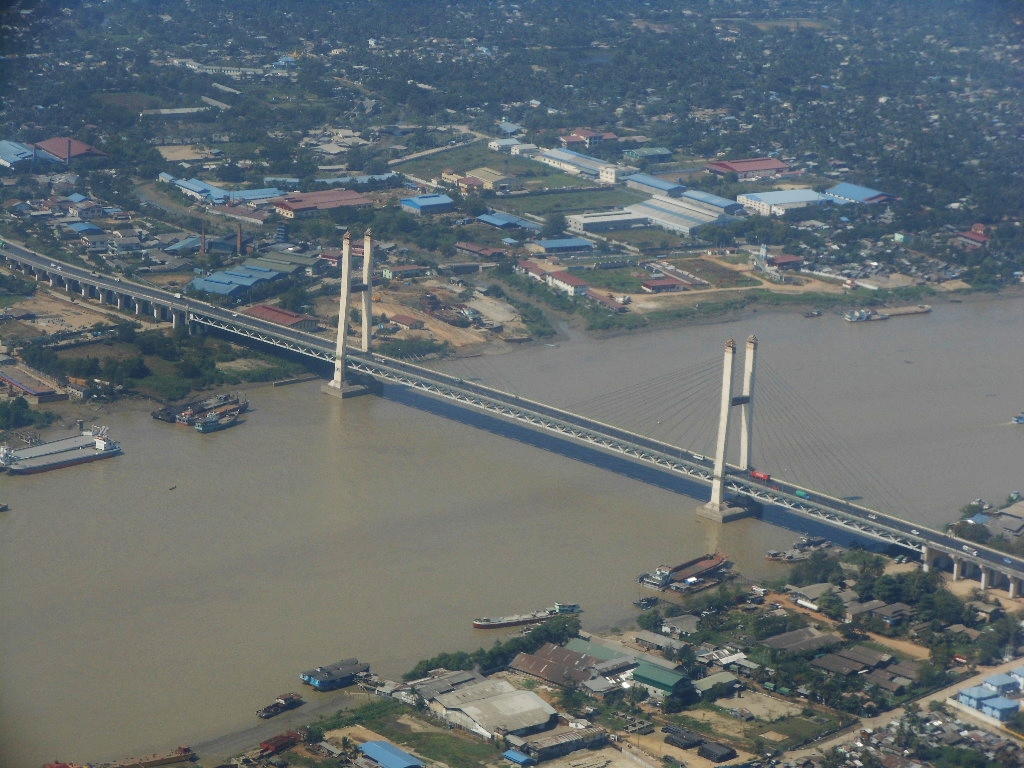 Bridge to the Future, Myanmar